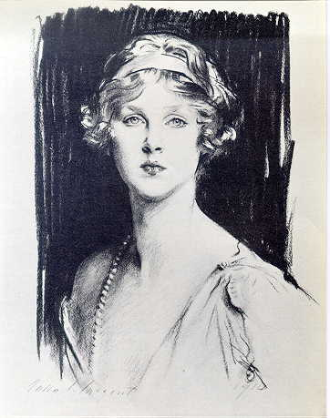 Lady Diana Manners